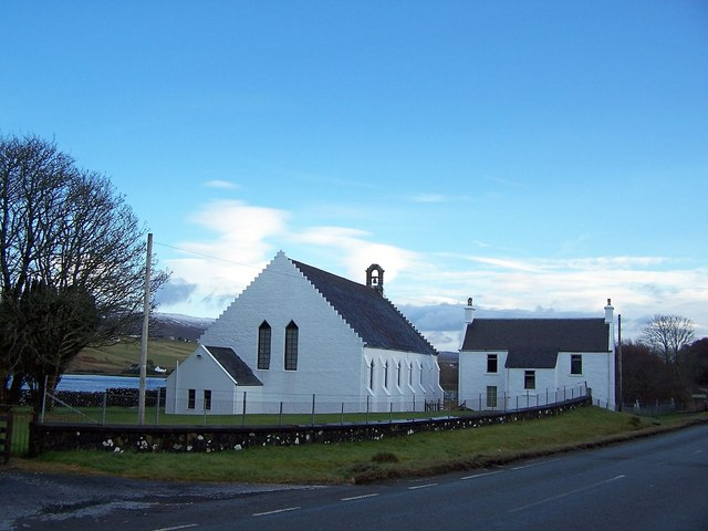 Snizort Free Church of Scotland The church and manse stand between the A850 and the head of Loch Snizort Beag. They both had a fresh coat of paint earlier this year.